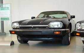 Daimler XJS, Coventry Motor Museum, England